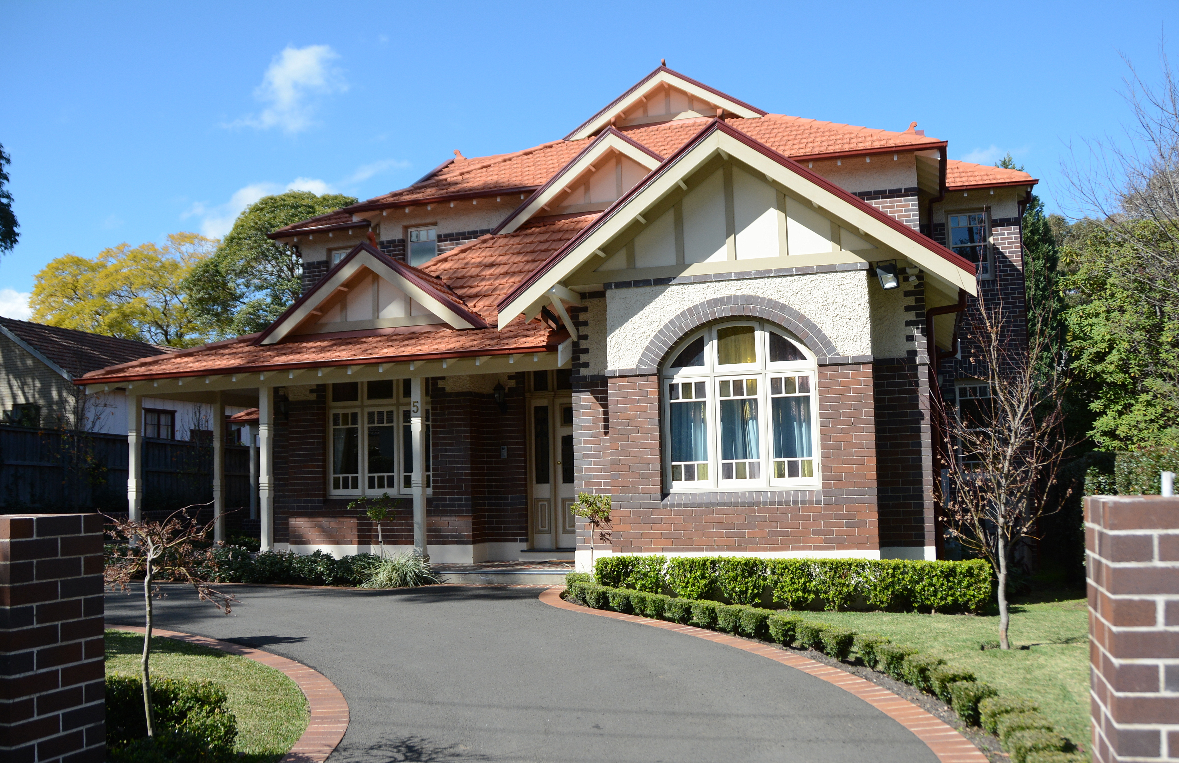 Federation cottage, Beecroft, Sydney